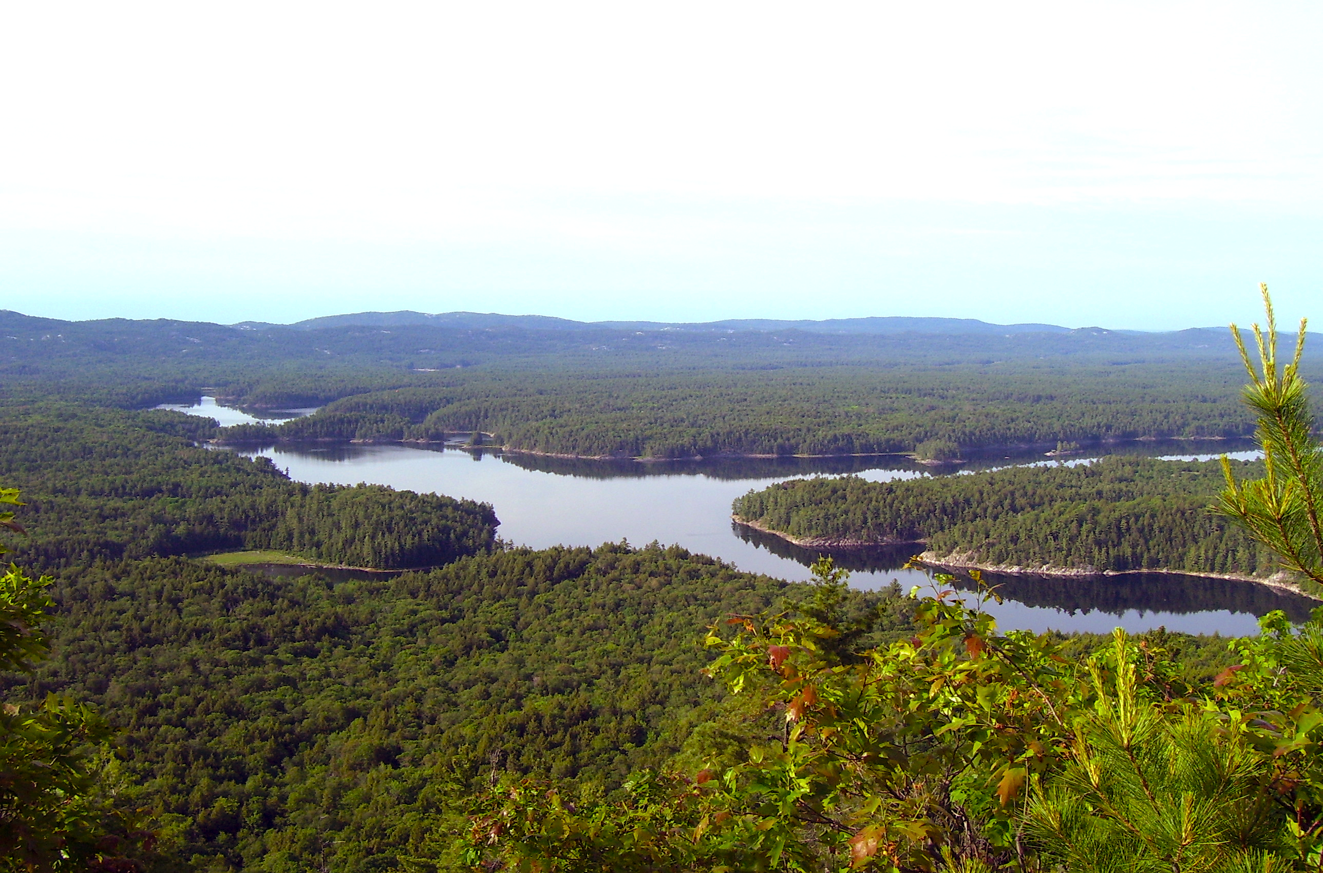 View from the La Cloche Silhouette Trail, a 78 kilometre (48 mi) backpacking loop in Killarney Provincial Park, Ontario, Canada.